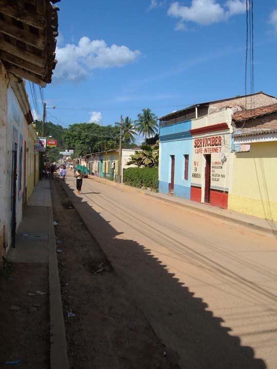 The sunny main street in Campamento (municipality in the Honduran department of Olancho), looking towards the Parque Central.